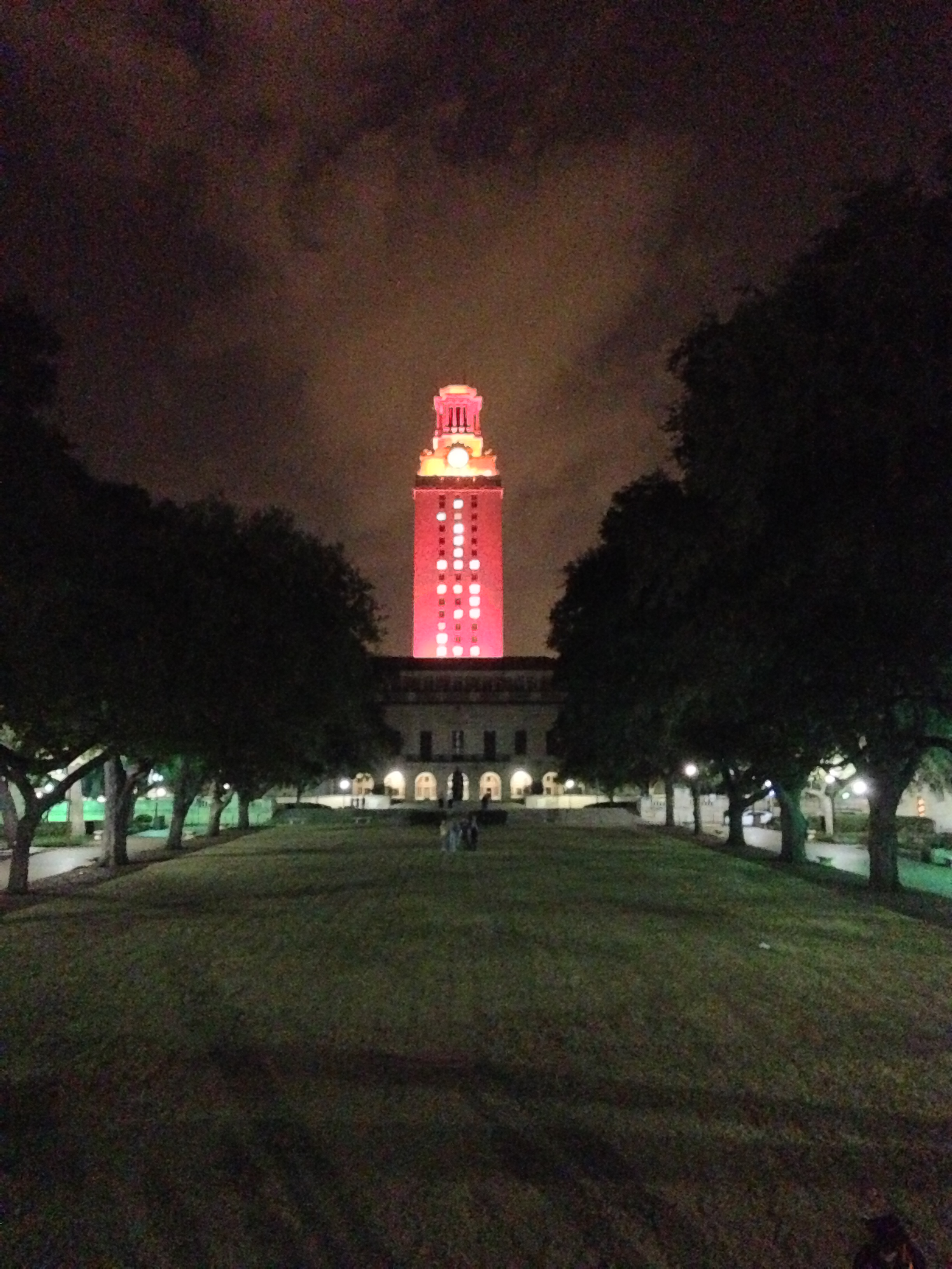 The University of Texas at Austin - Main Building (Tower) illuminated burnt orange for the 2012 Fall Commencement, 8 December 2012. The number 12 in lights refers to the graduating class of 2012.